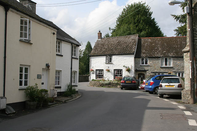 Buckland Monachorum. The main street through Buckland Monachorum is just called The Village. These cottages by the church, are just in the featured square.